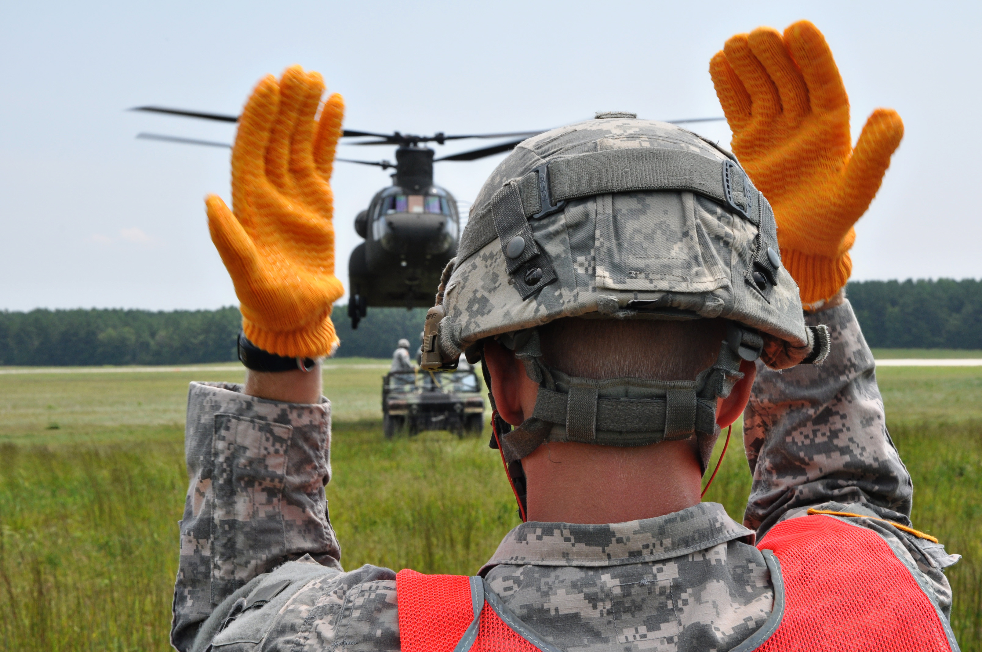 Soldiers from the Fort Benning-based Warrior Training Center teach students sling load operations a CH-47 Chinook helicopter during U.S. Army Pathfinder School at Fort Pickett, Va., Aug. 19. The mission of a Pathfinder is to provide technical assistance and advise the ground unit commander on combat assault operations, sling load operations, air movement, airborne operations, and aerial re-supply by fixed and rotary wing aircraft.